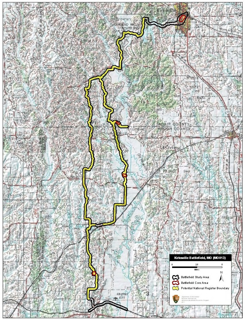 Map of battlefield core and study areas. The ABPP revised the 1993 Study Area to include the retreat route of Confederate forces from Kirksville down towards New Cambria to incorporate fighting that took place on August 8 and 9. The Federal approaches to New Cambria along the railroad were also added. These troops stumbled into Porter’s scouts east of New Cambria and initiated the two-day running engagement back up the Chariton River. The Core Areas were revised to represent the initial expulsion of Porter’s Confederates from Kirksville by a smaller but better trained and well-equipped Federal force on August 6, the rearguard ambush at Painter's Creek on August 8, a second rearguard action at Walnut Creek in the early morning hours of August 9, and the final skirmish which took place later that day at Seesford as Confederate forces retreated across the Chariton River.